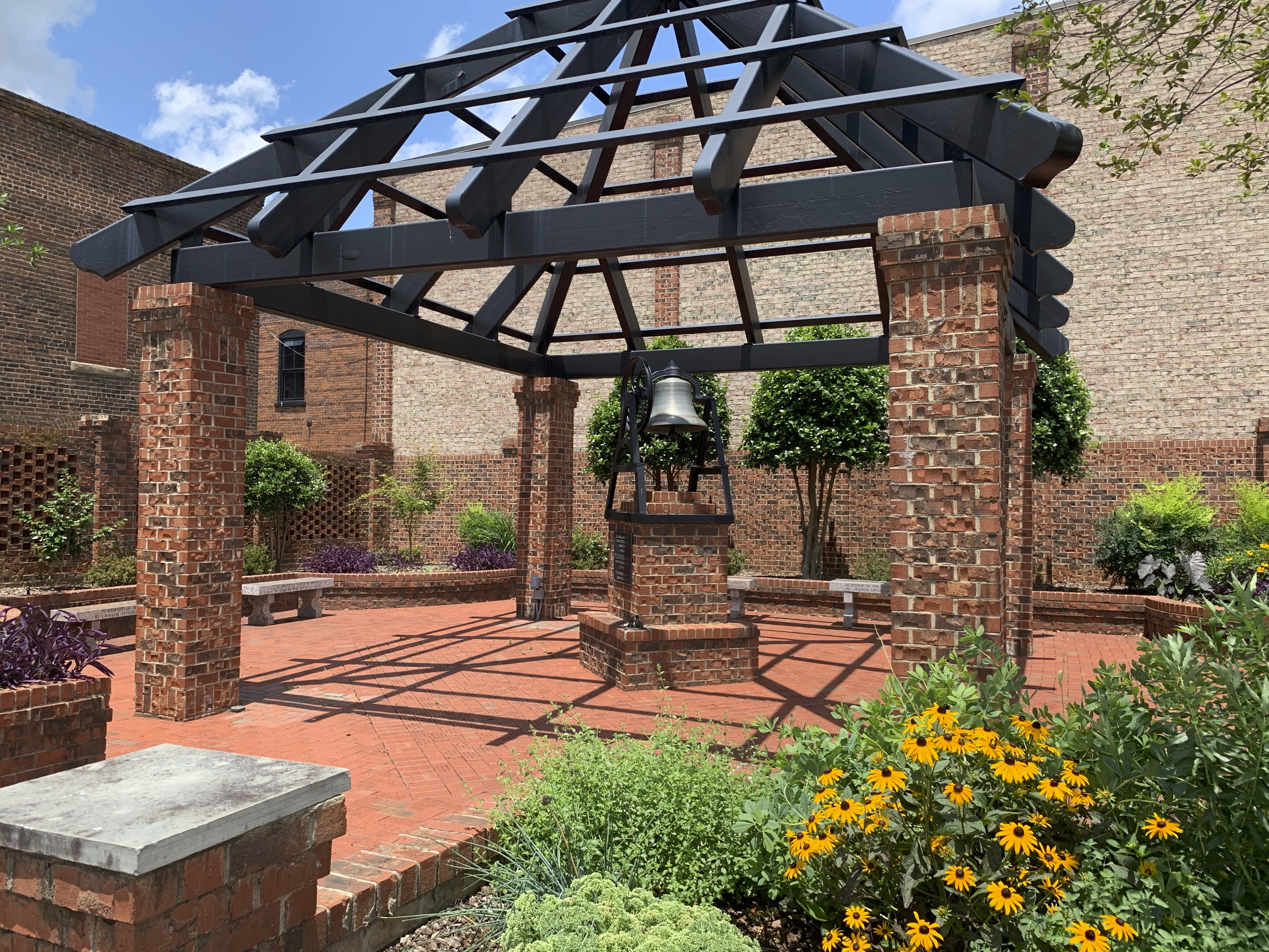 A view of Sesquicentennial Park in Graham, North Carolina illustrating the brick courtyard, metal framework, and courthouse bell centerpiece.